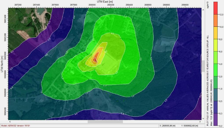 The results of a successful modelization with the Environment Protection Agency (EPA) AERMOD is shown here as an isocline.